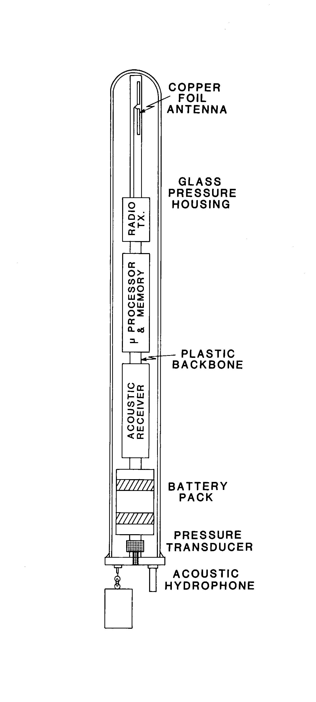 The interior of a basic first model isobaric RAFOS float. In an isopycnal float, the ballast on the bottom left can extend or retract to match the copressibility of the surrounding water